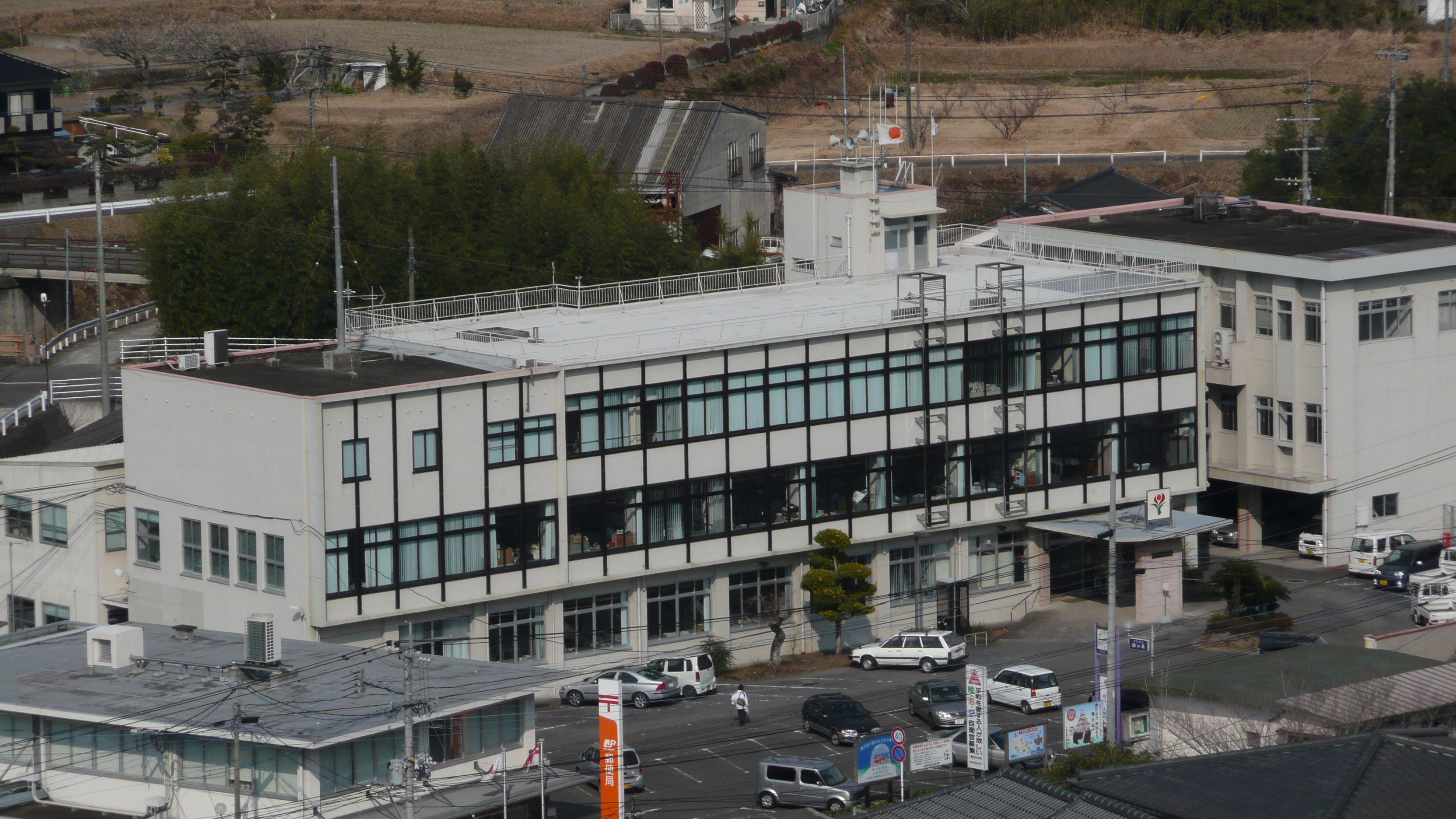 Soo City Office Ōsumi Branch (Former Ōsumi Town Office - Kagoshima, Japan)